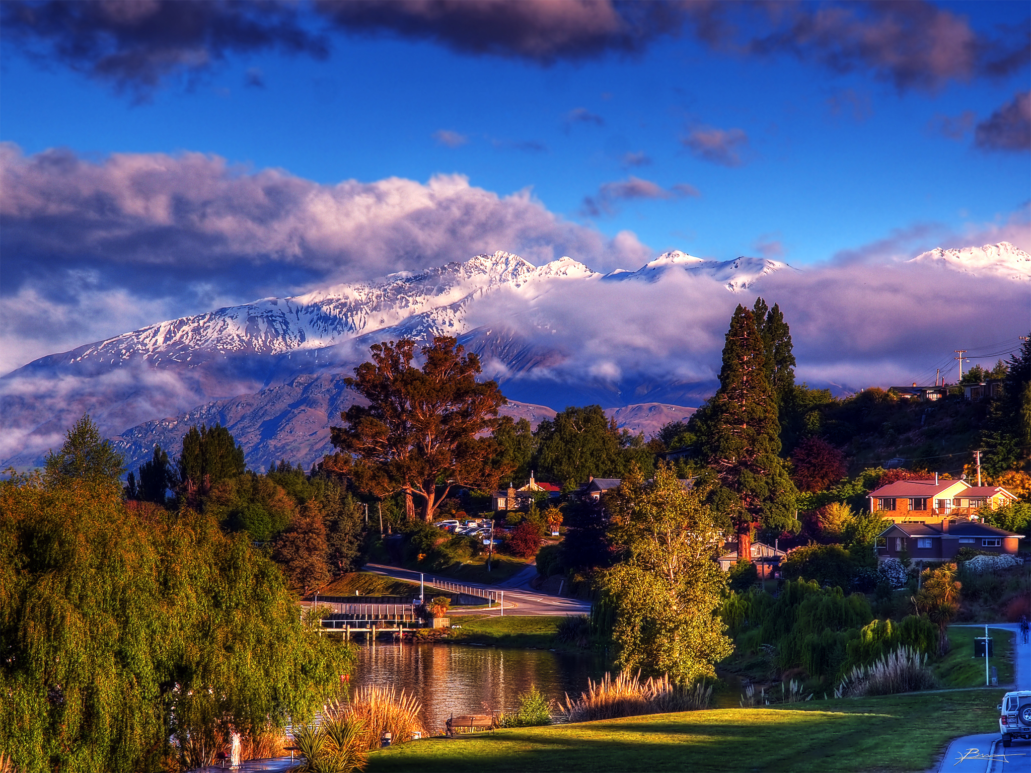 Morning view from Lakeside Road, Roys Bay, Wanaka.wanaka